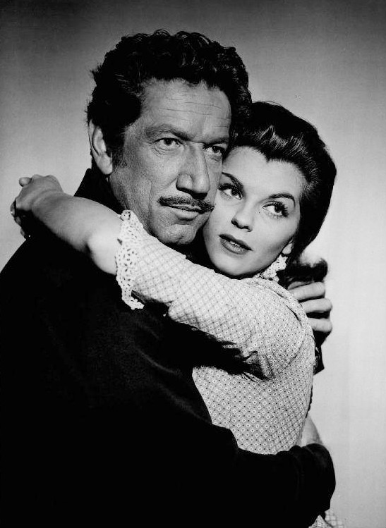 Photo of Richard Boone and Lisa Gaye from the television program Have Gun, Will Travel.